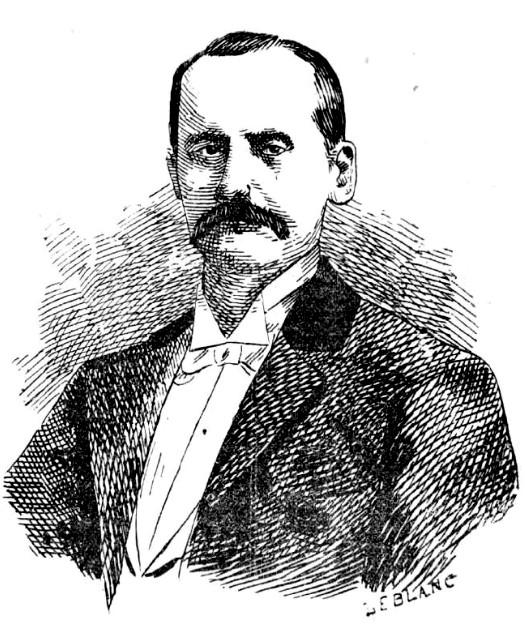 Drawing of President Terencio Sierra By Le Blanc